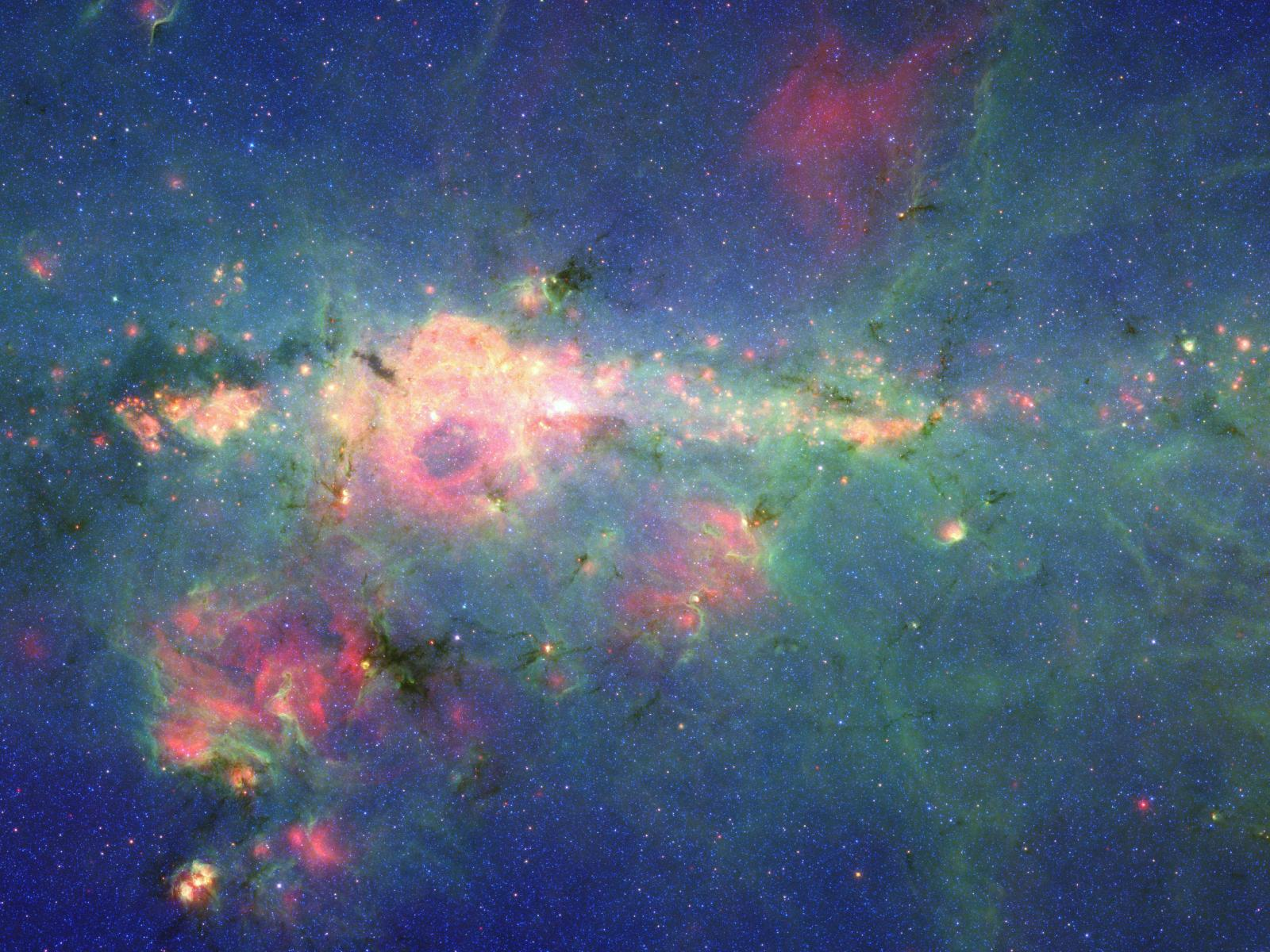 The Peony Nebula star taken by NASA's Spitzer Space Telescope in its naturally dusty region